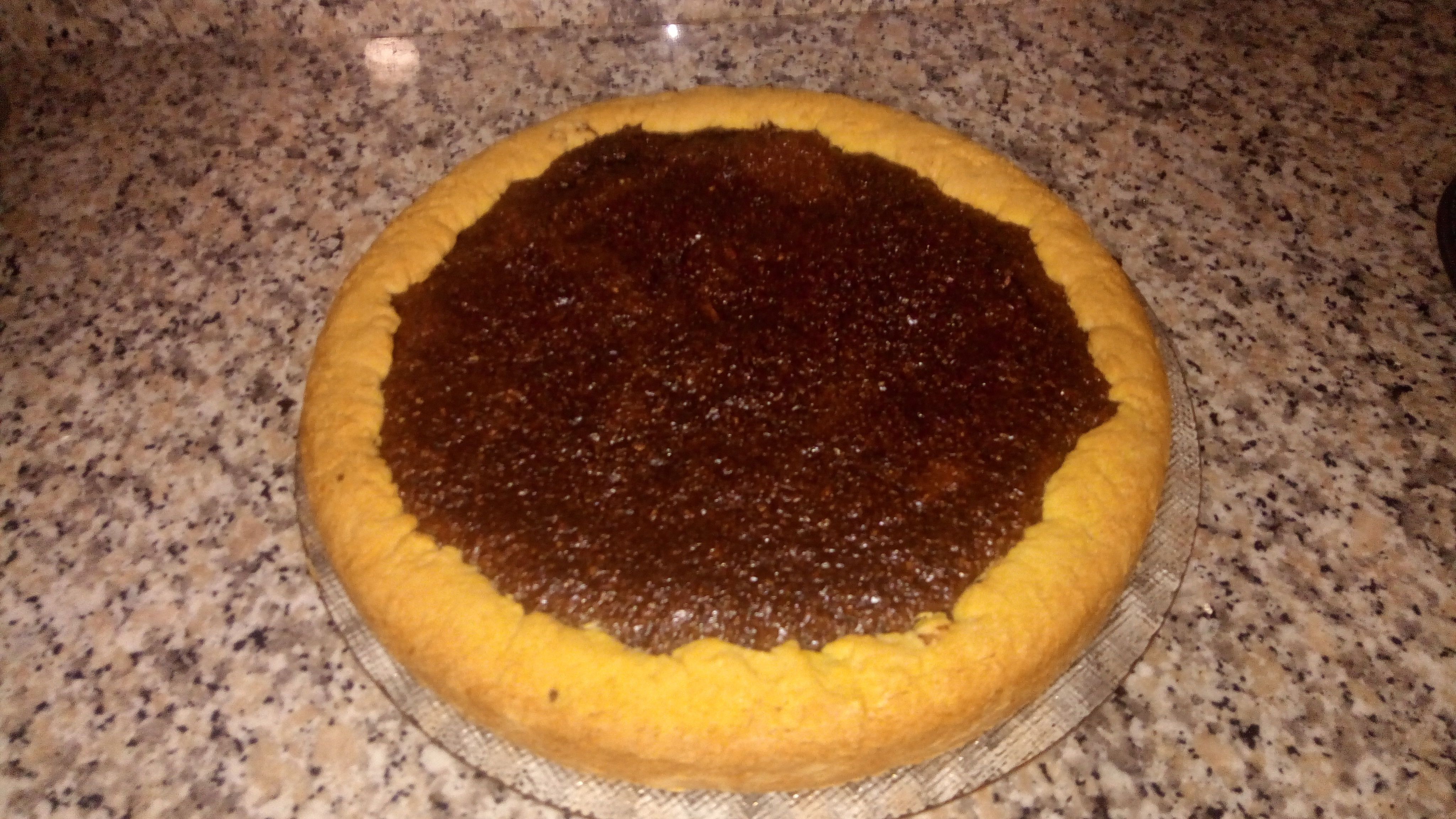 Black Cake